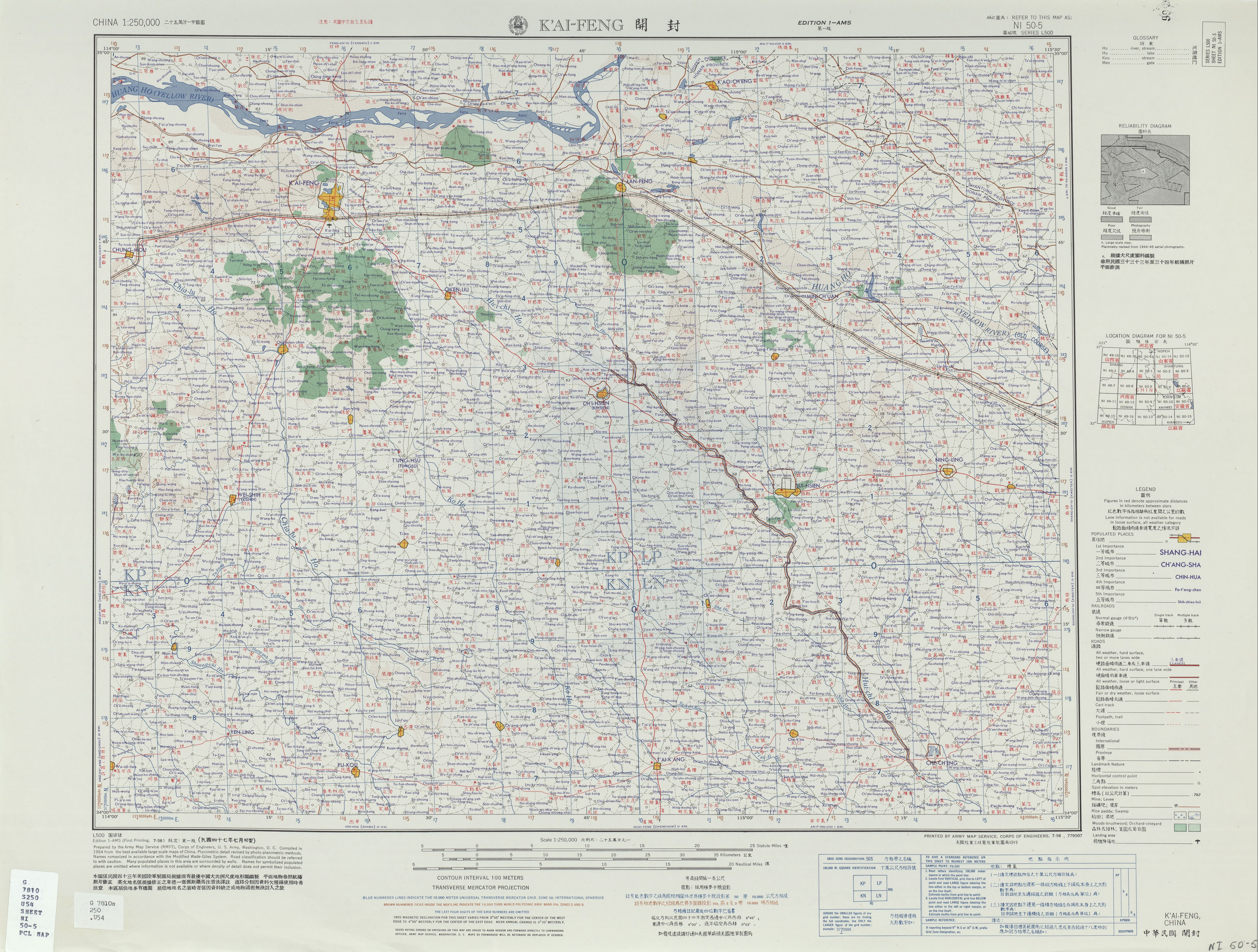 China AMS Topographic Maps